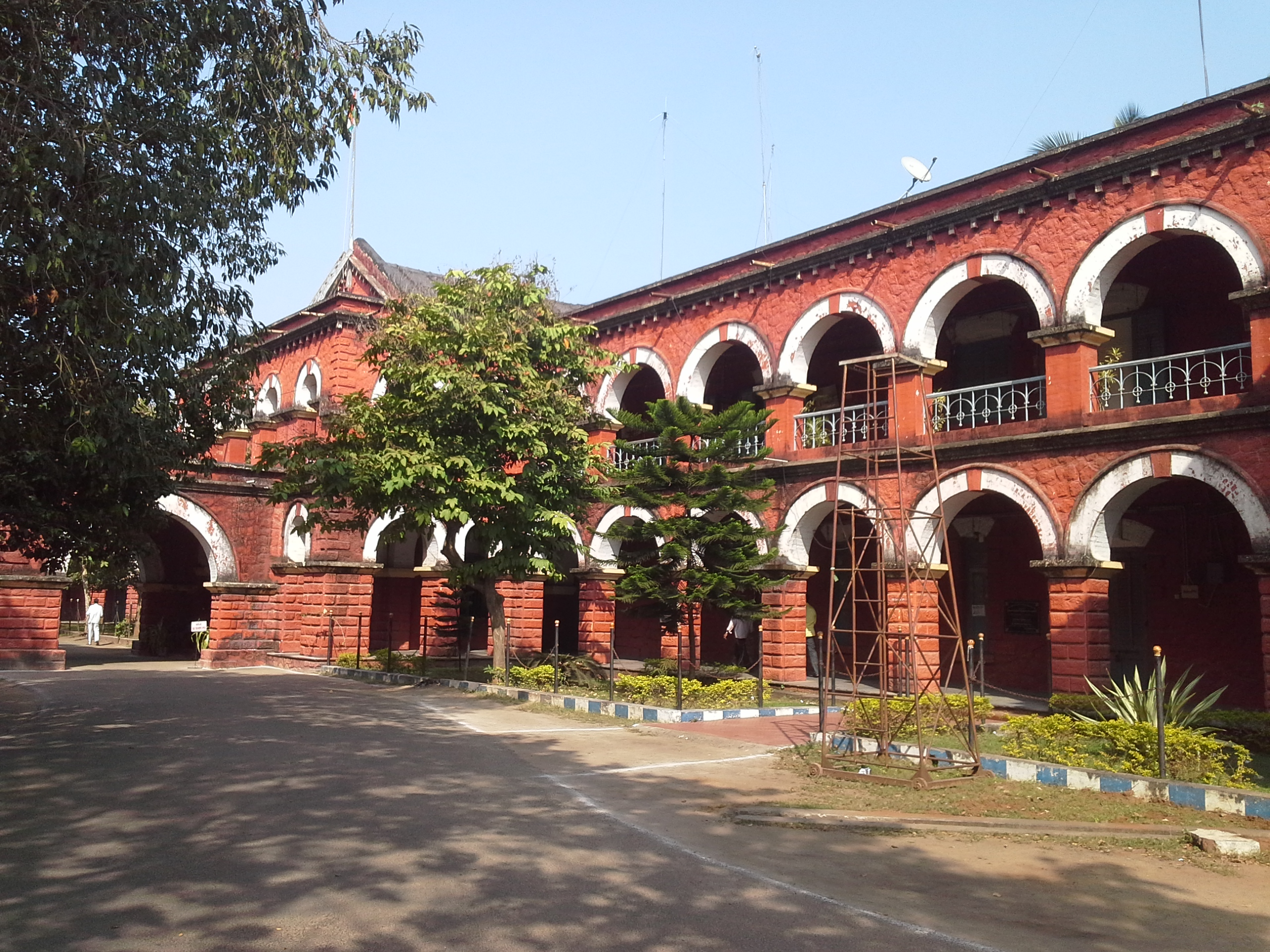 District Collector Office building at Kakinada, East Godavari, Andhra Pradesh